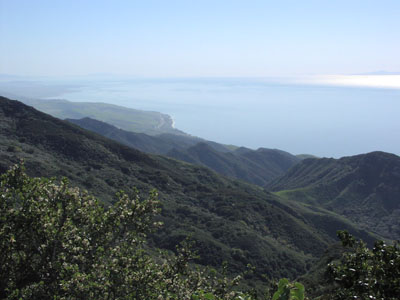 View of Santa Barbara Channel, looking southeast from the summit of Gaviota Peak, in the Santa Ynez Mountains. Taken by Antandrus. Freely given to public domain. For use on my personal page, and also possibly for articles on Gaviota State Park, Gaviota Coast, Santa Barbara Channel, chaparral, Santa Ynez Mountains or anything else of similar nature.